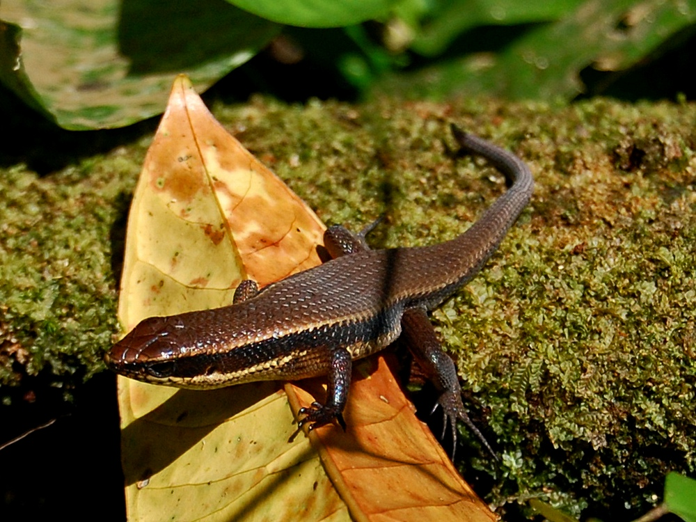 Rough Mabuya Eutropis rudis, basking on the forest floor. From Upper Seruyan, Central Kalimantan, Indonesia